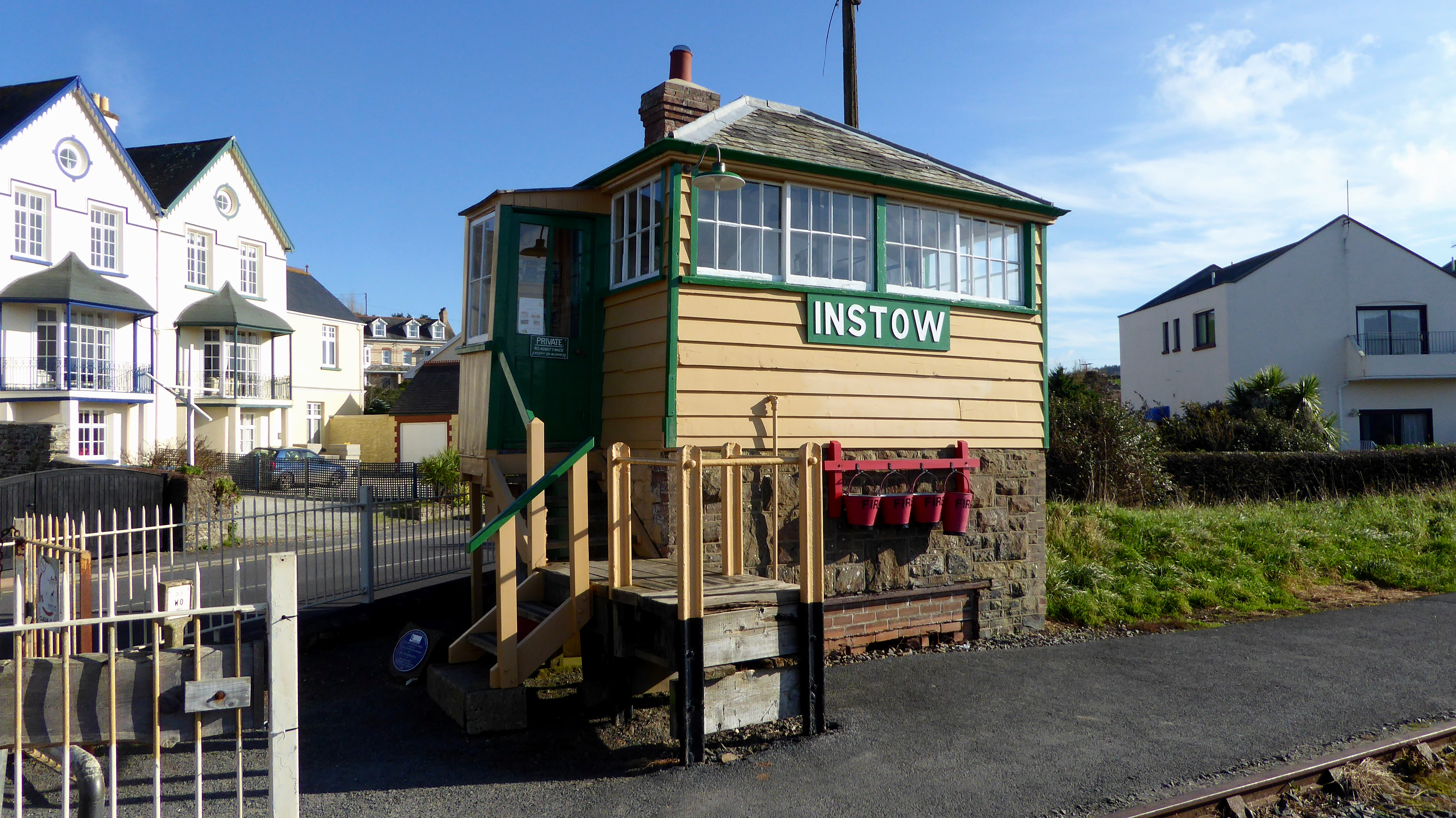 Instow Signal Box, Instow, Devon, seen from the west